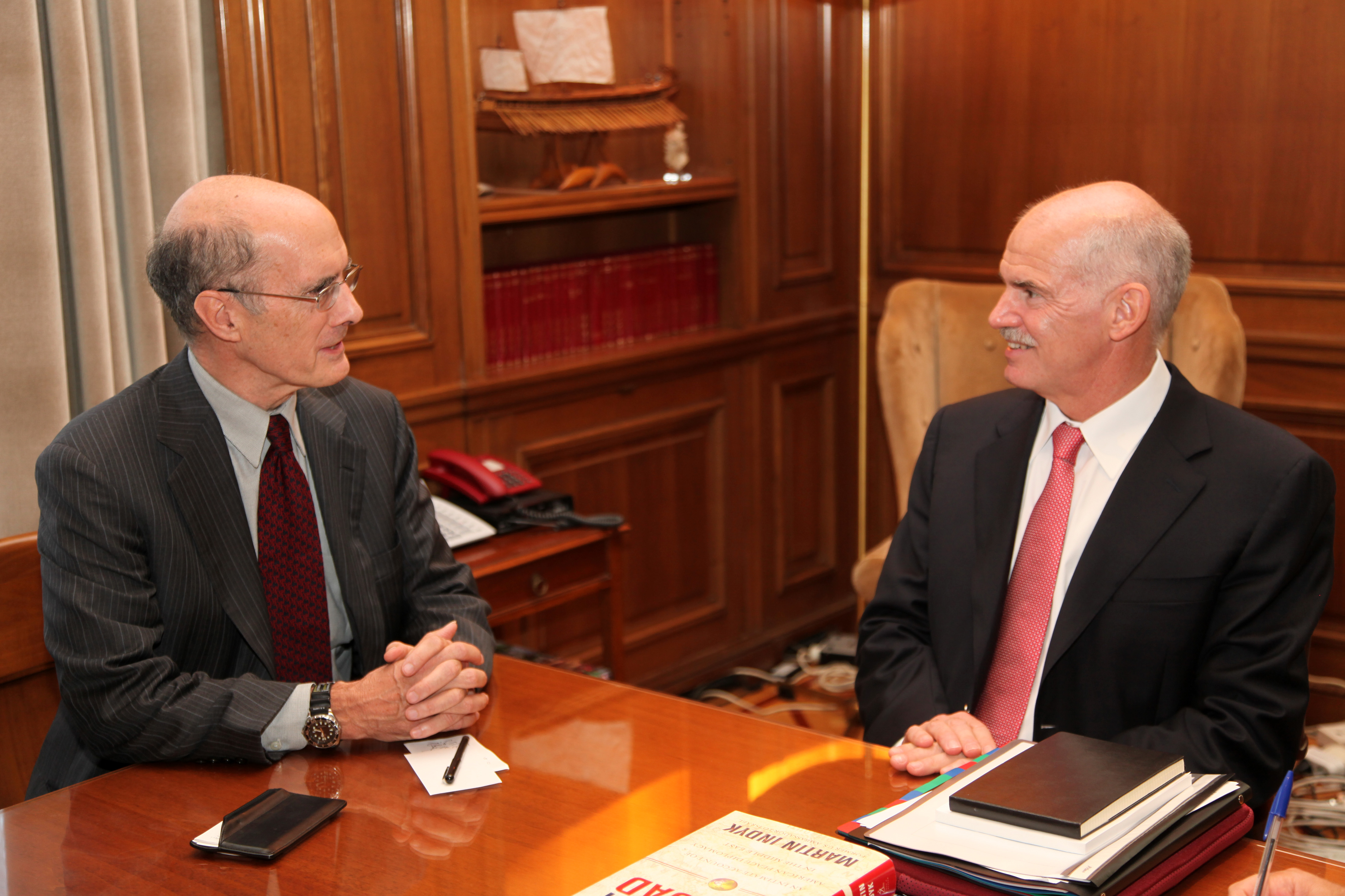 Strobe albott with George Papandreou, Prime Minister of Greece